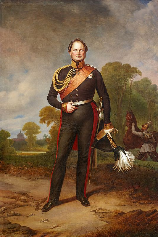 Friedrich Wilhelm IV (1795-1861)